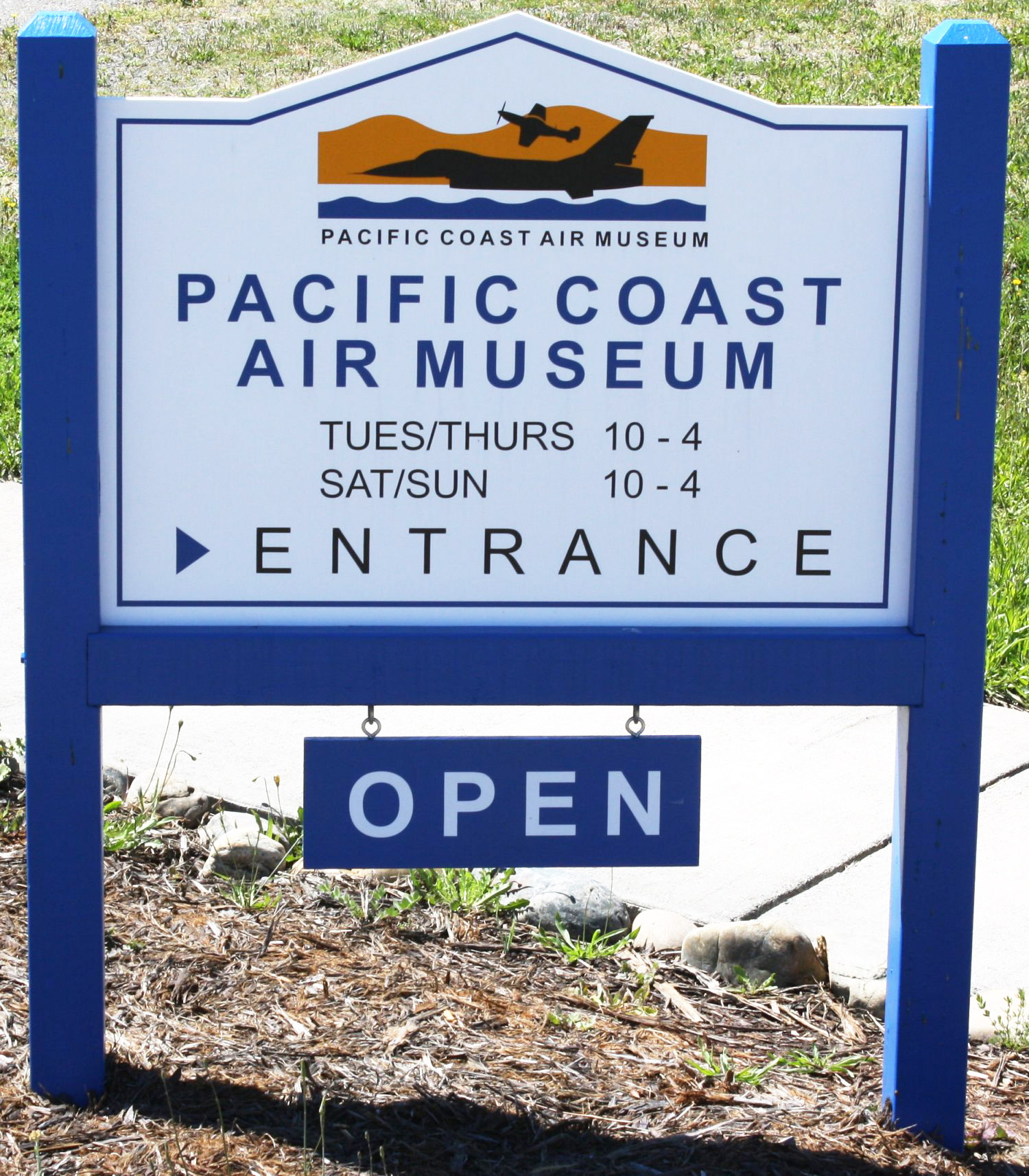 Pacific Coast Air Museum, Charles M. Schulz Sonoma County Airport, Santa Rosa, California